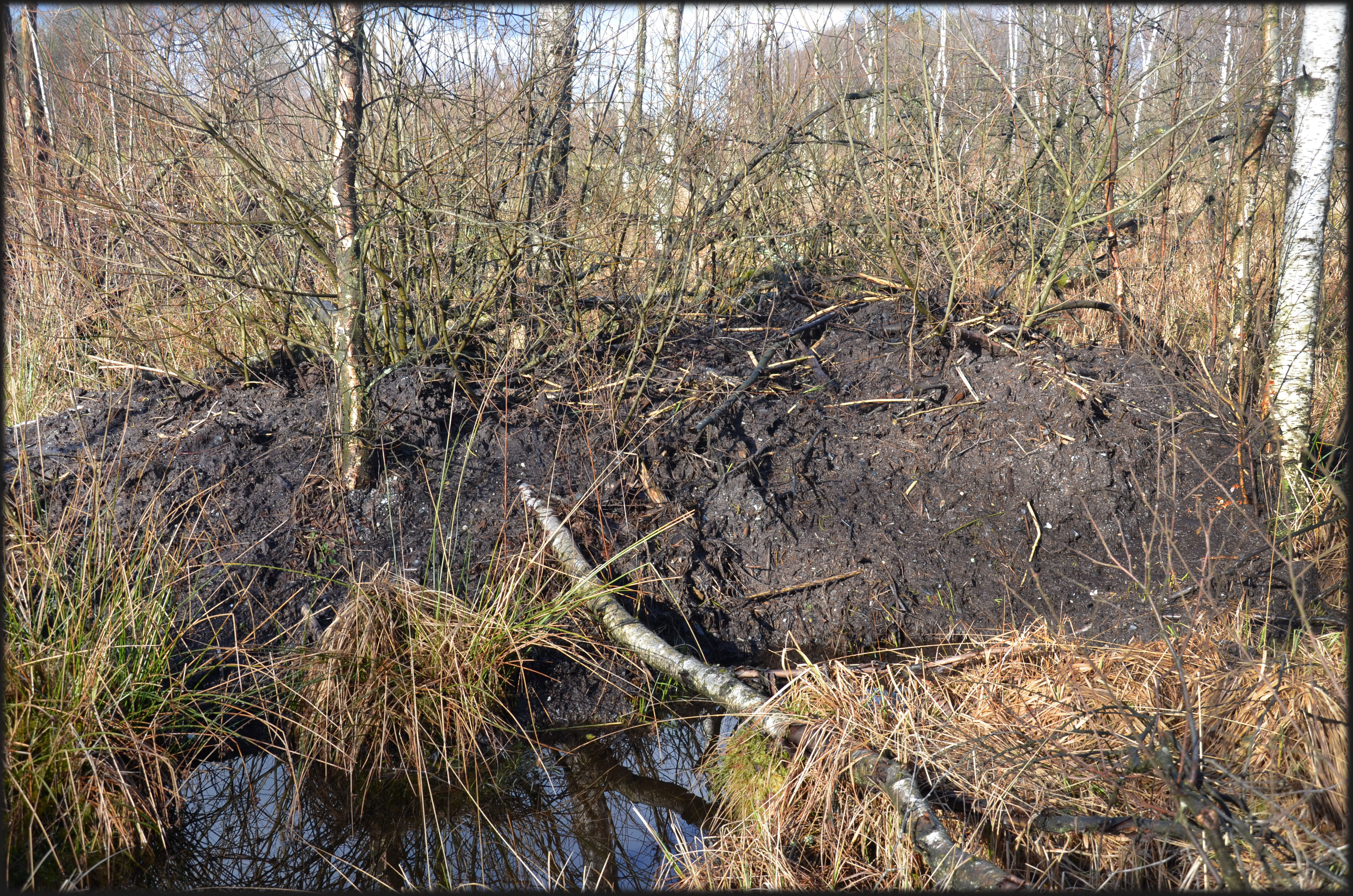 loge for Castor fiber (in French Ardennes) in a wetland Blue molinies ( Molinia caerulea, willow and birch.